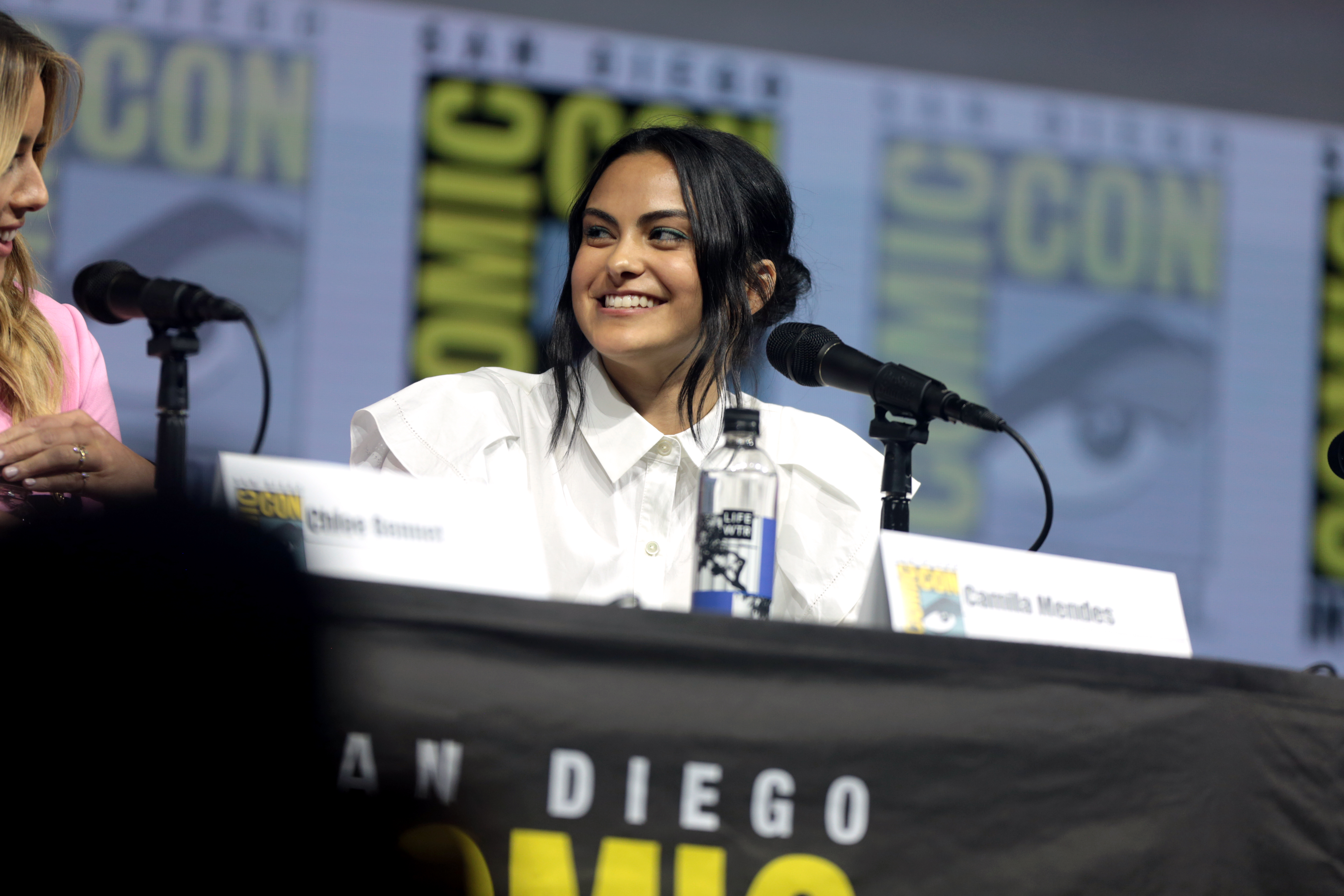 Camila Mendes speaking at the 2018 San Diego Comic Con International, for "Entertainment Weekly's Women Who Kick Ass", at the San Diego Convention Center in San Diego, California.